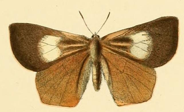 Plate: 5 Liphyra leucyania. Figs. 1 ♀, 2 ♂. Accepted as Euliphyra leucyania (Hewitson, 1874).